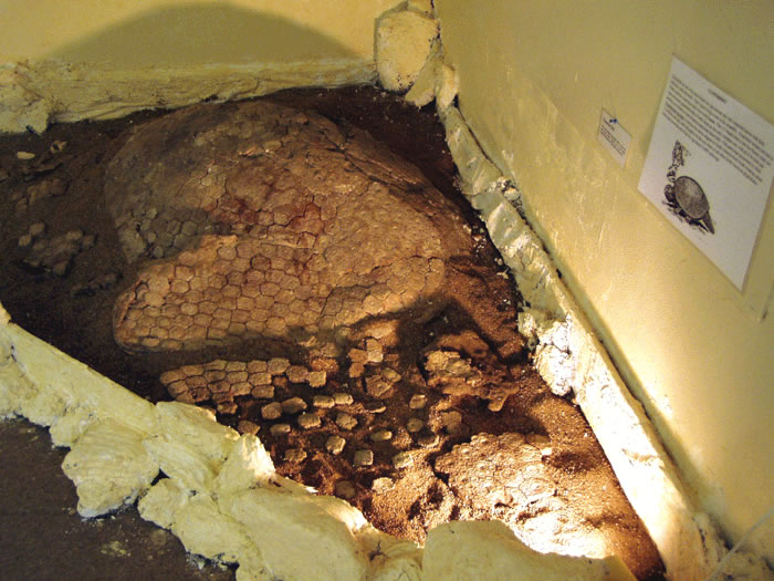 Close-up of a nearly complete glyptodont shell (Glyptotherium texanum). Glyptodonts, close cousins of armadillos, are the only mammal known to have a hard, inflexible, turtle-like shell; they became extinct at the end of the Ice Age, about 12,000 years ago.